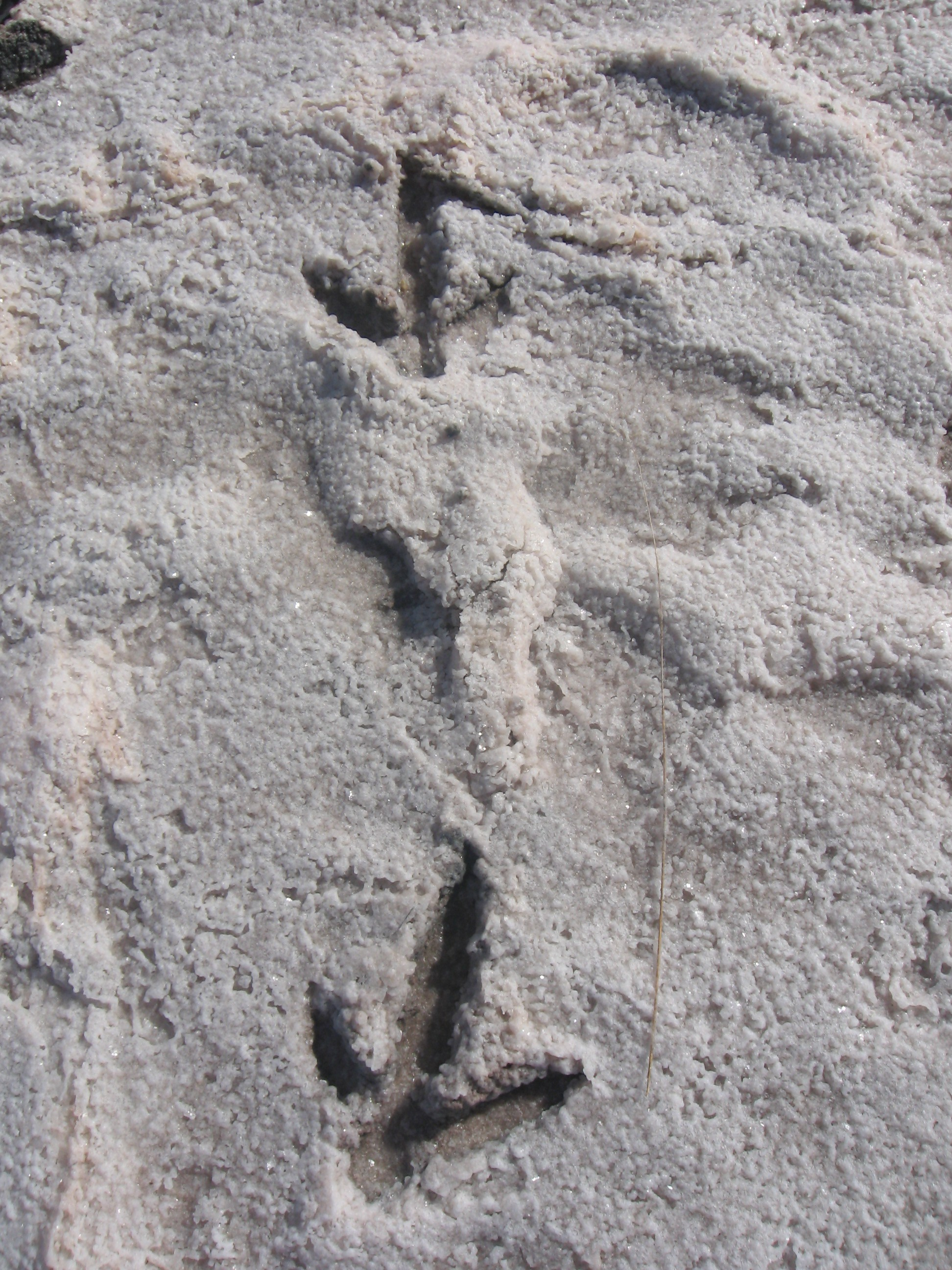 Closeup of Emu tracks on a salt lake in Murray Sunset NP, Victoria, Australia